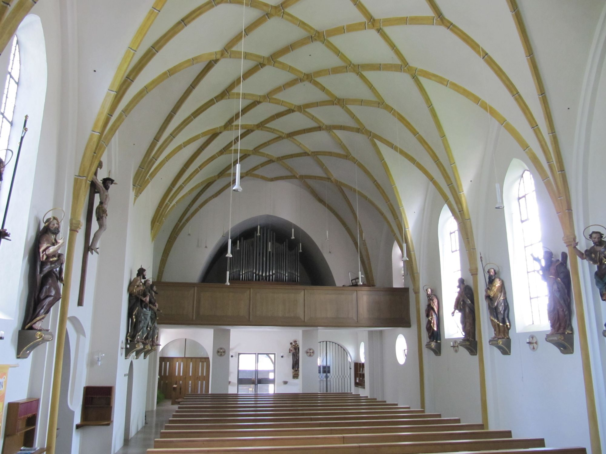 Munich-Aubing: The old village church St. Quirin at the Ubostraße.